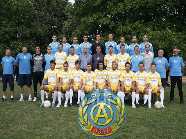 AKADEMIK Sofia - lqto 2011